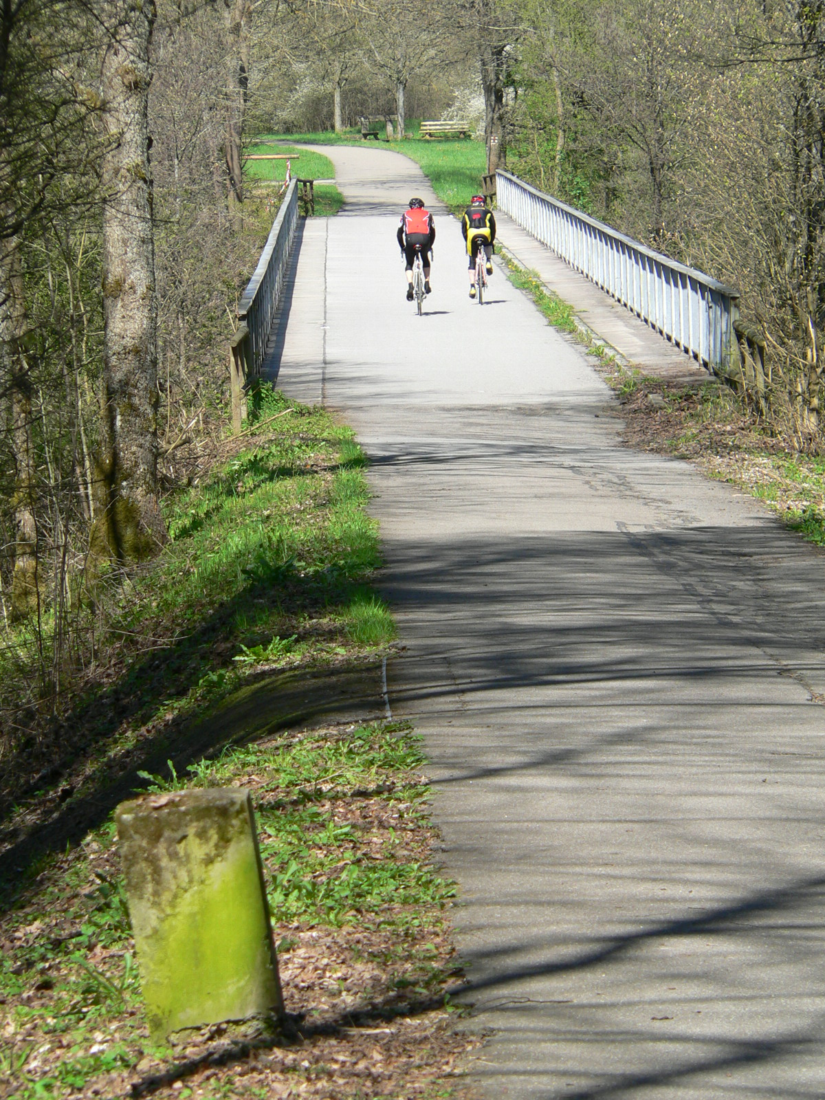 Trail on the former railway line Siebenmuehlentalbahn near Stuttgart, Germany